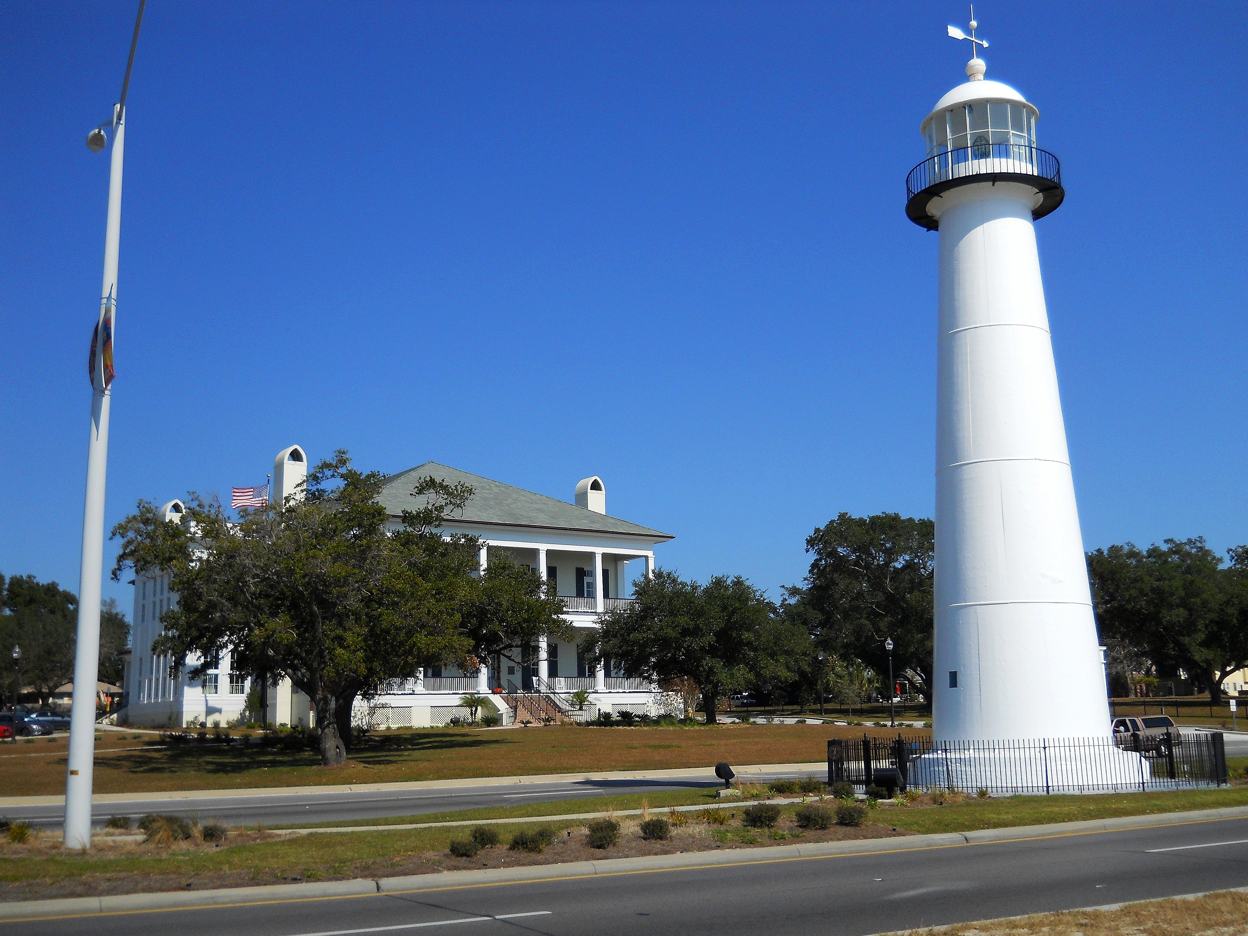 Biloxi Lighthouse on U.S. Route 90 with Visitor's Center in background.